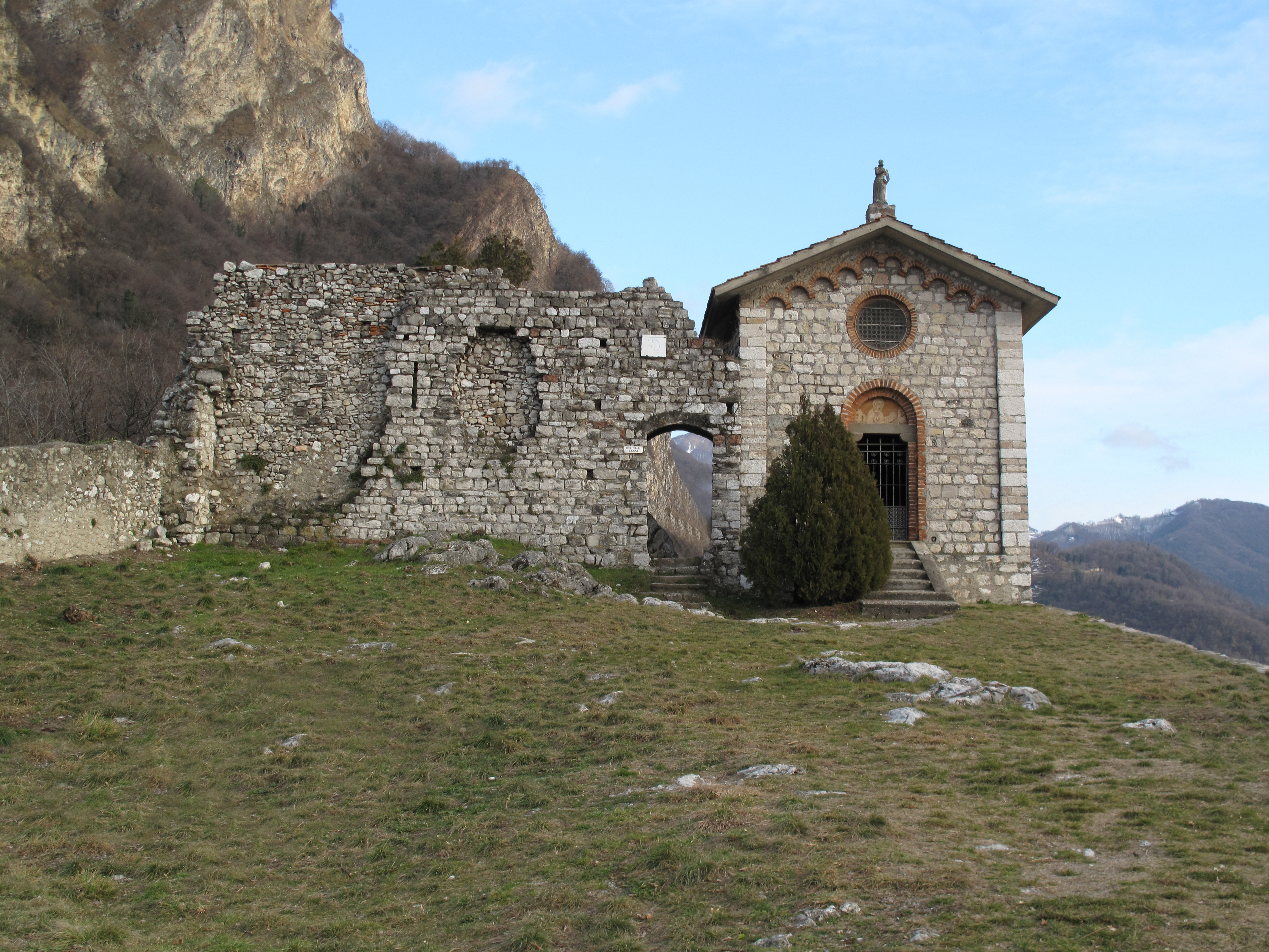 Castle of Innominato (Character of "I promessi Sposi") in Vercurago di Somasca (LC) Italy